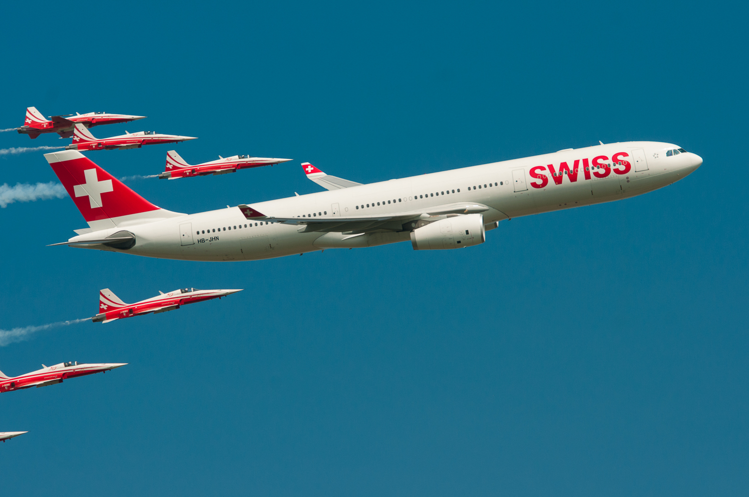 Airbus A330-300 of Swiss International Air Lines flying in formation with Patrouille Suisse at Air14 Payerne.